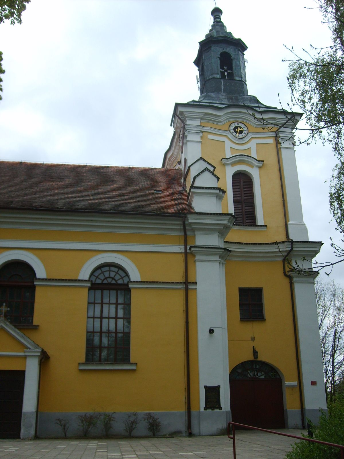 Church in village Jaraczewo in Poland, in Greater Poland Voivodeship